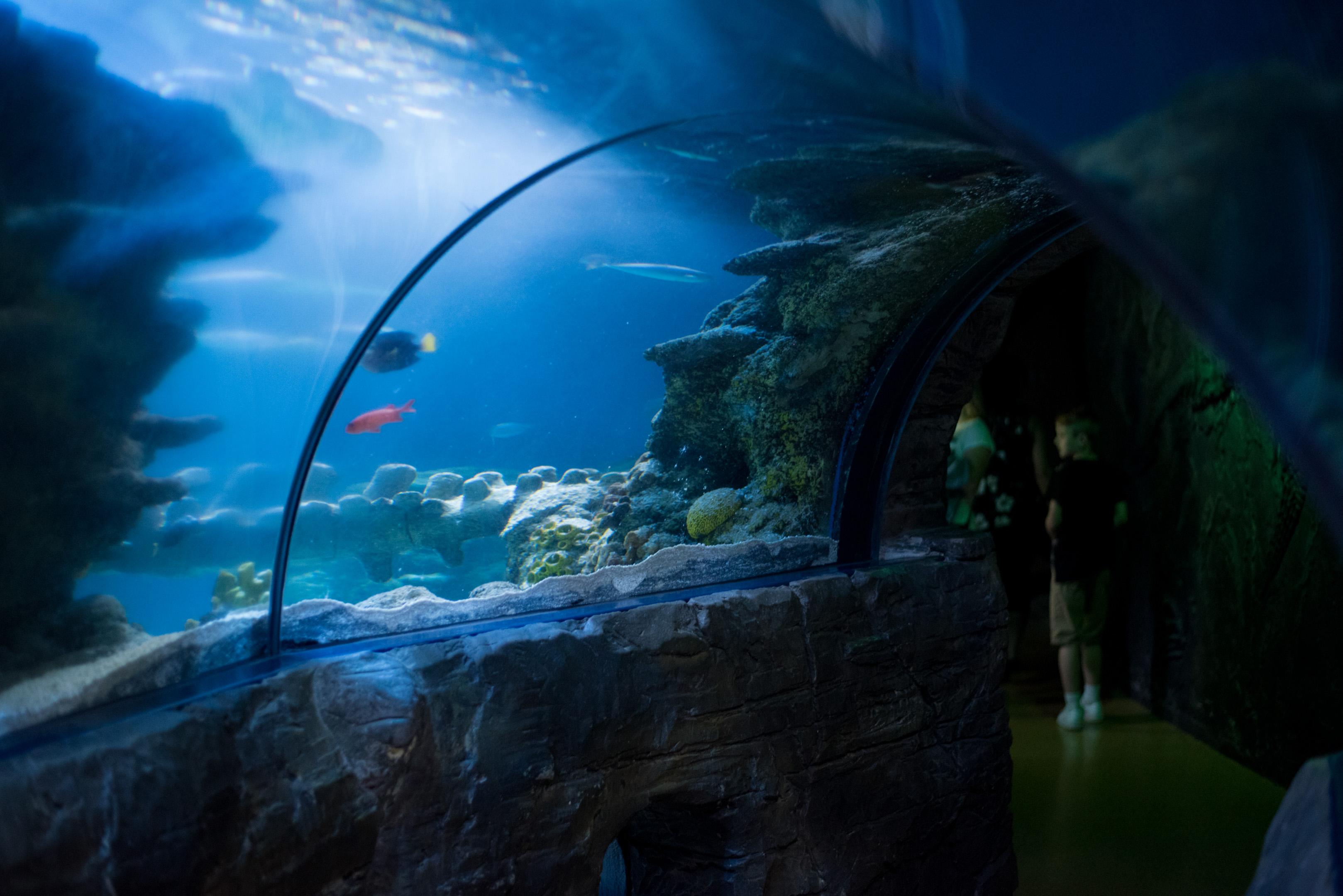 The underwater walk of Sea Life London Aquarium, captured in June 2018.